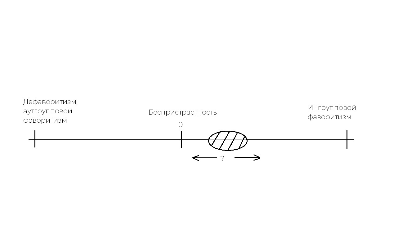 Ingroup favouritism